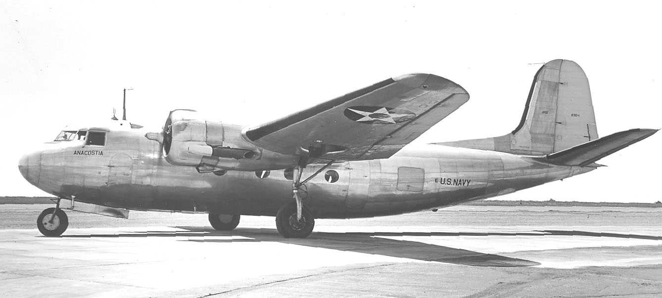 DouglasR3D-1